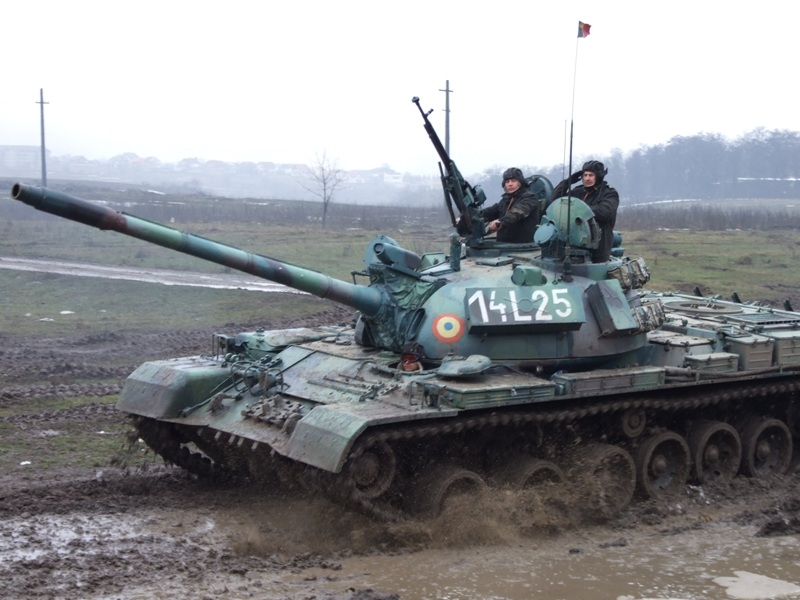 TR-85 tank from the 631st Tank Battalion during an exercise.